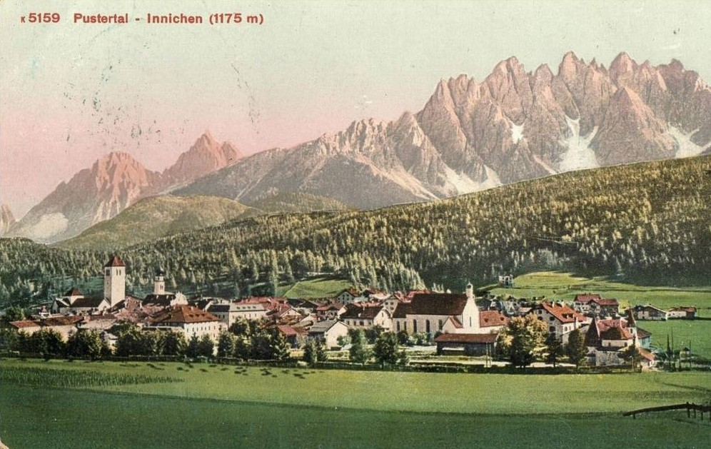 Innichen (San Candido), now in South Tyrol Italy, belonged to the Prince-Bishopric of Freising for a little over 1000 years, then was part of the Austrian province of Tyrol from 1803 to 1918. Postcard published circa 1910.